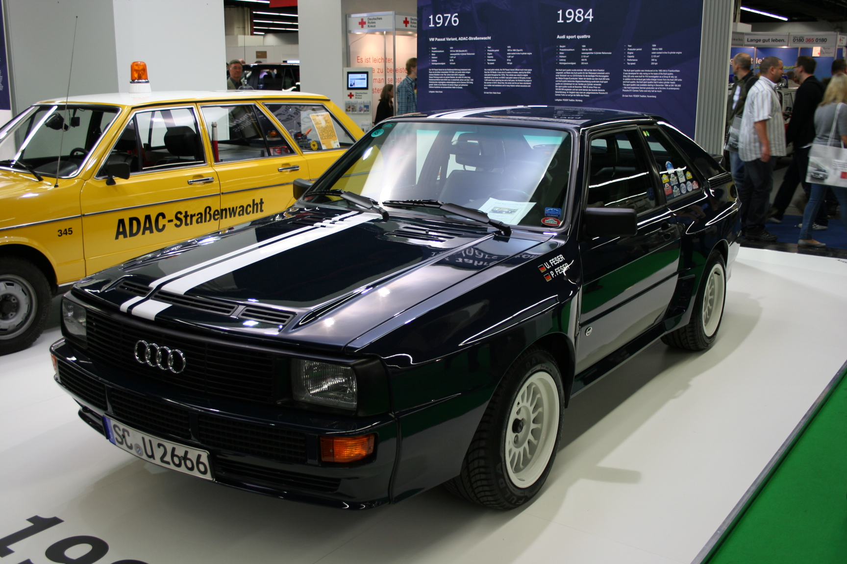 Black Audi Sport Quattro at IAA 2011. View: front left